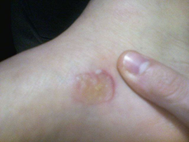 Picture of a blister